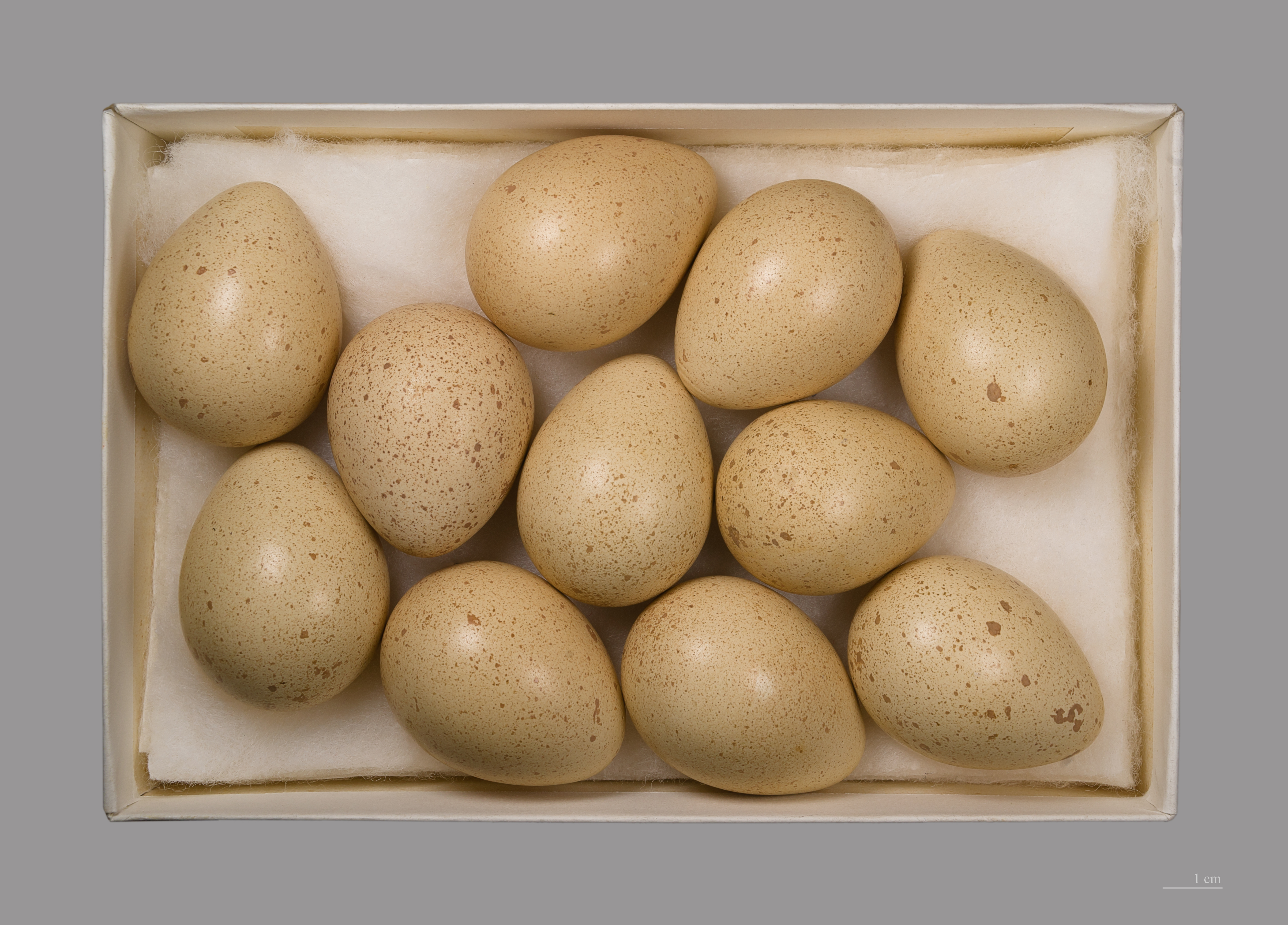 Egg of Chukar Partridge. Collection of Jacques Perrin de Brichambaut Locality: Sosnivka, Ukraine.